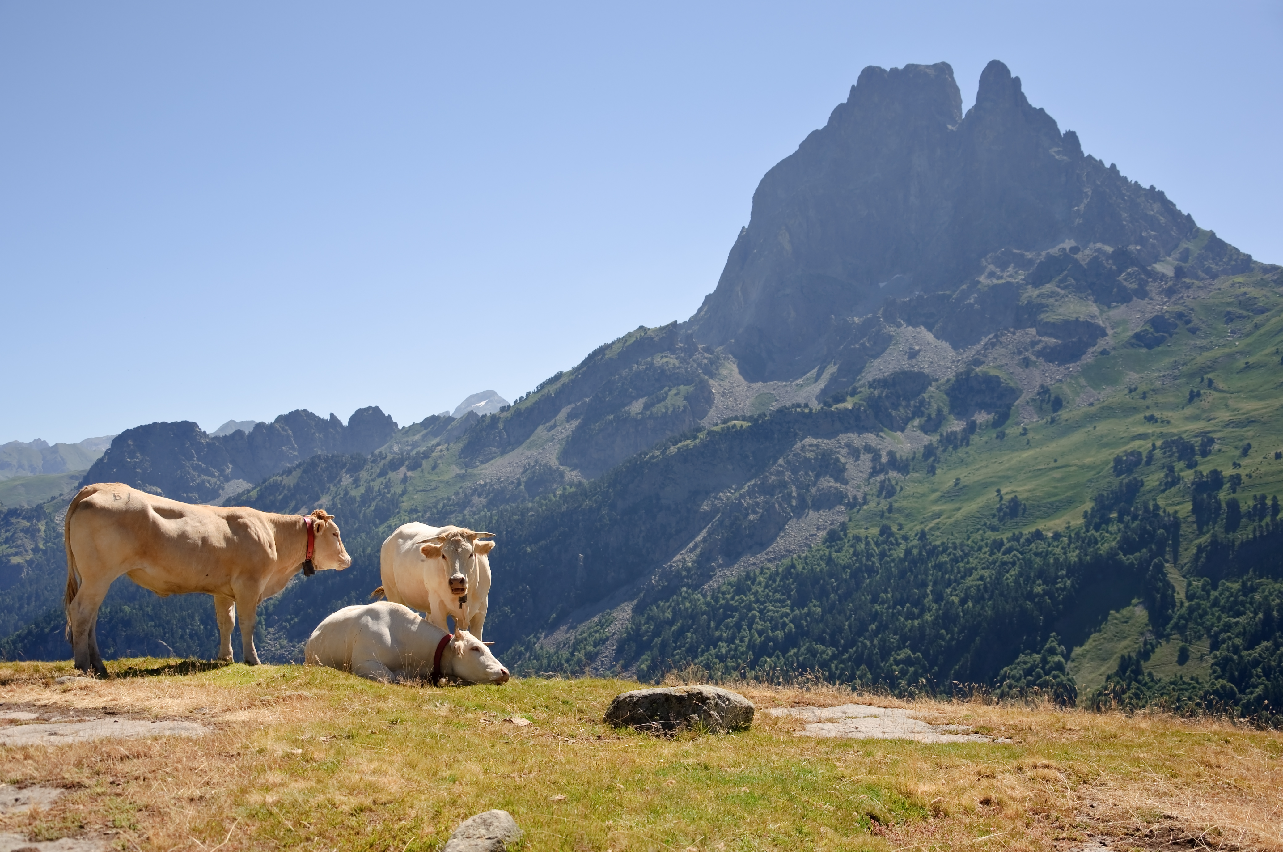 Cattle of the Blonde d'Aquitaine breed on summer mountain pasture in the Pyrenees ; in the background, the outline of the Pic du Midi d'Ossau.